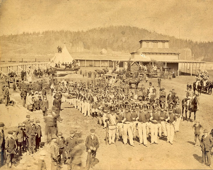 Gathering for the Parade, Loyalist Centennial, Saint John, New Brunswick, Canada. Albumen print mounted on card.